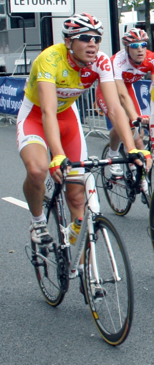 Olivier Chevalier after the finish of the World Ports Classic 2012 in Rotterdam